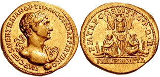 Traianus. 98-117 AD. AV Aureus (7.27 gm). Struck mid-Summer 116 AD. IMP CAES NER TRAIAN OPTIM AVG GER DAC PARTHICO, laureate bust right, aegis on left shoulder globe at base of bust P M TR P COS VI P P S P Q R, PARTHIA CAPTA in exergue, Parthia seated left, head facing, in attitude of mourning, and Parthian seated right in attitude of mourning below trophy. RIC II 325; cf. Strack 247 (no globe at base of bust); BMCRE 606; Calicó 1036; Cohen 186. Good VF, underlying luster.